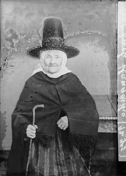 1 negative : glass, dry plate, b&w ; 11 x 8.5 cm.